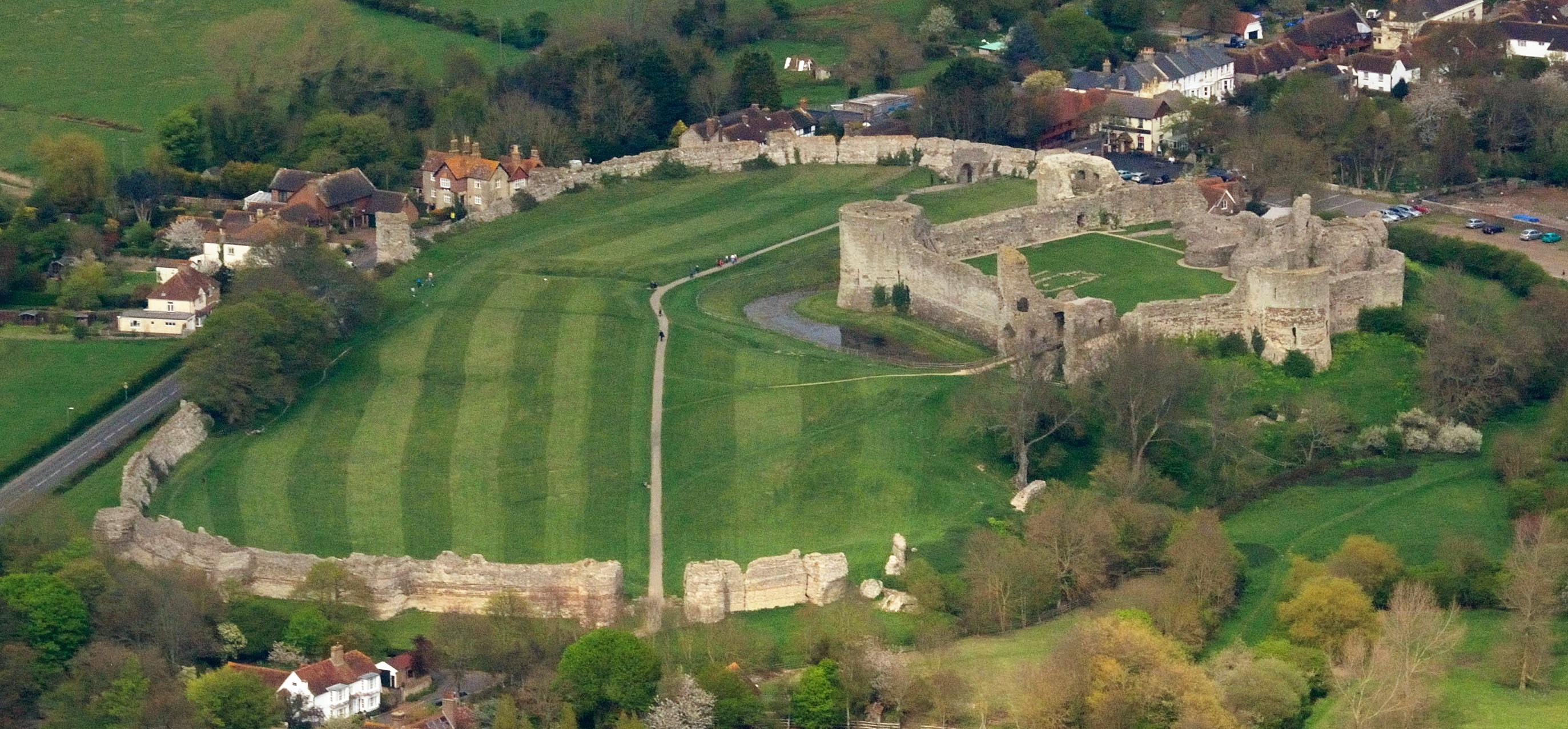 Aerial photograph of Pevensey castle and surroundings, England. The church at the bottom of the picture, just outside the Roman wall, is St.Mary's at Westham. To the right of the castle is St.Nicholas' church at Pevensey. Nikon D60 f=116mm f/9 at 1/1250s ISO 800. Processed using Nikon ViewNX 1.5.2.